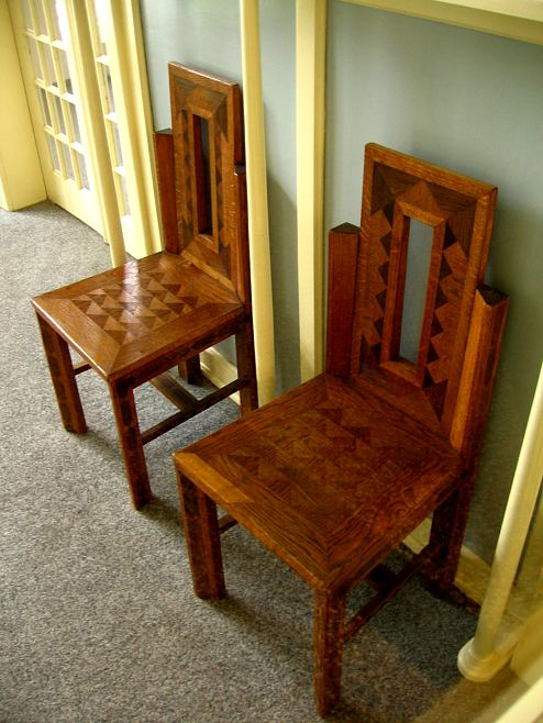 Secession chairs from the Primavesi Villa in Olomouc, the Czech Republic